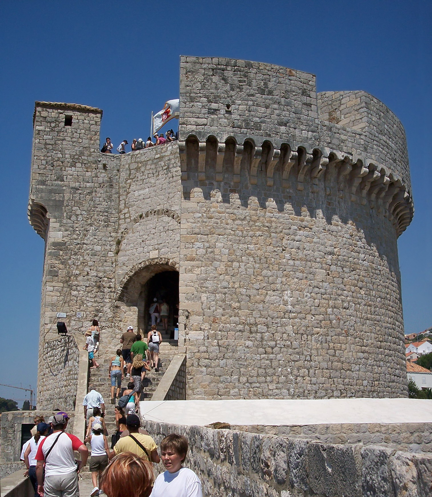 Walls of Dubrovnik (Croatia)